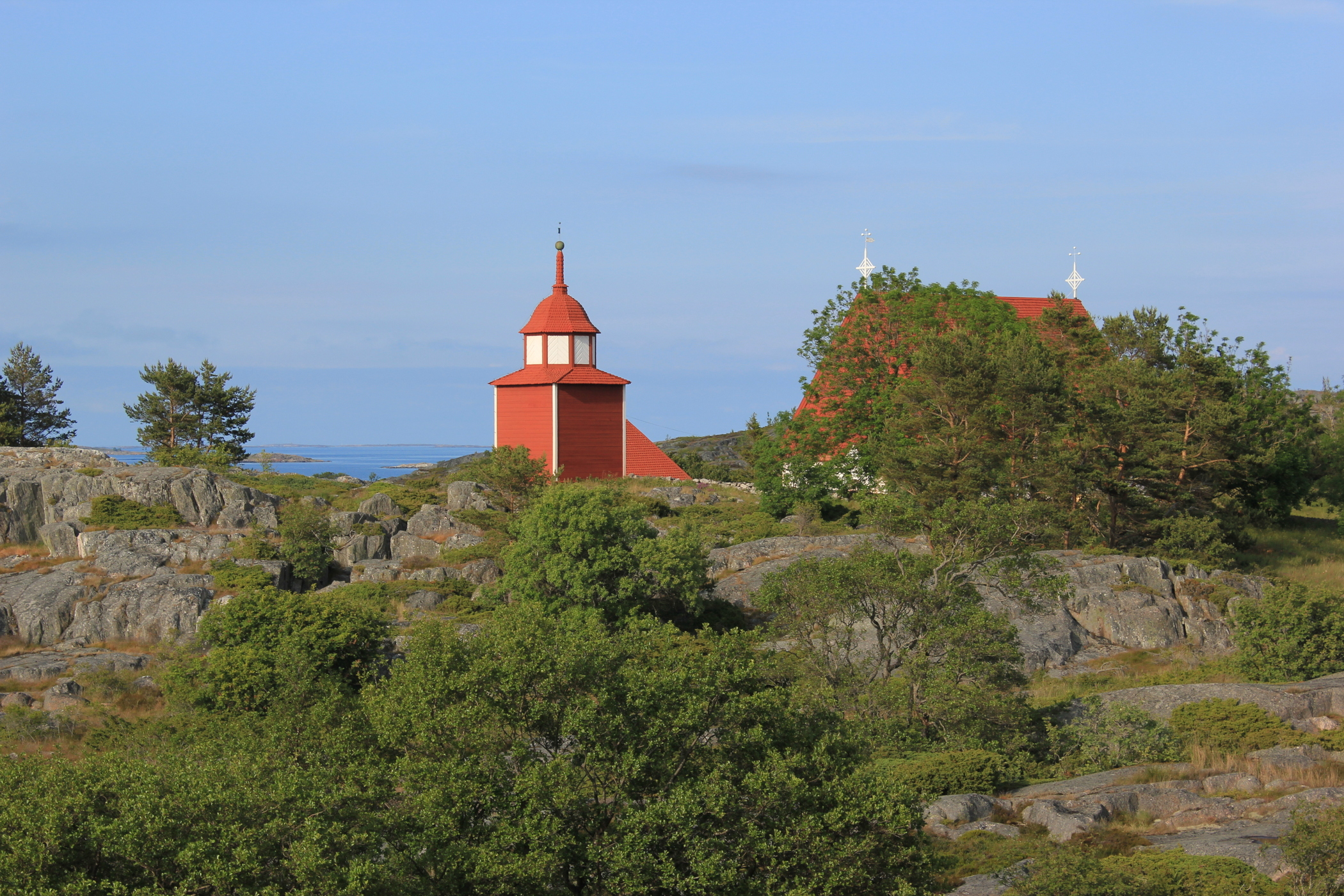 On Kökar island, Åland.